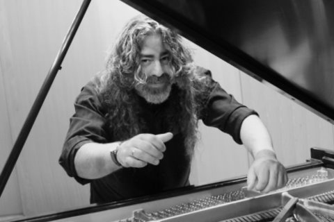 Photo of Frank Felice at the piano, to be added to Frank Felice article